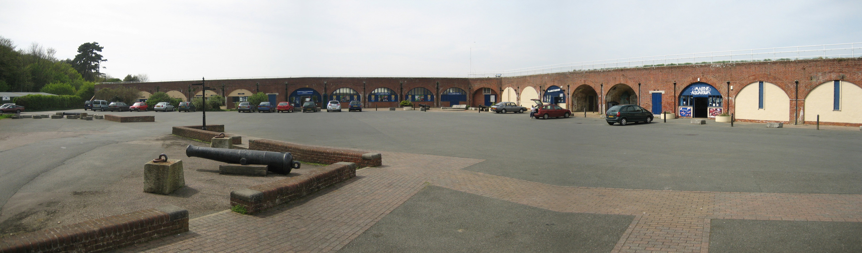 A panorama of Fort Victoria.